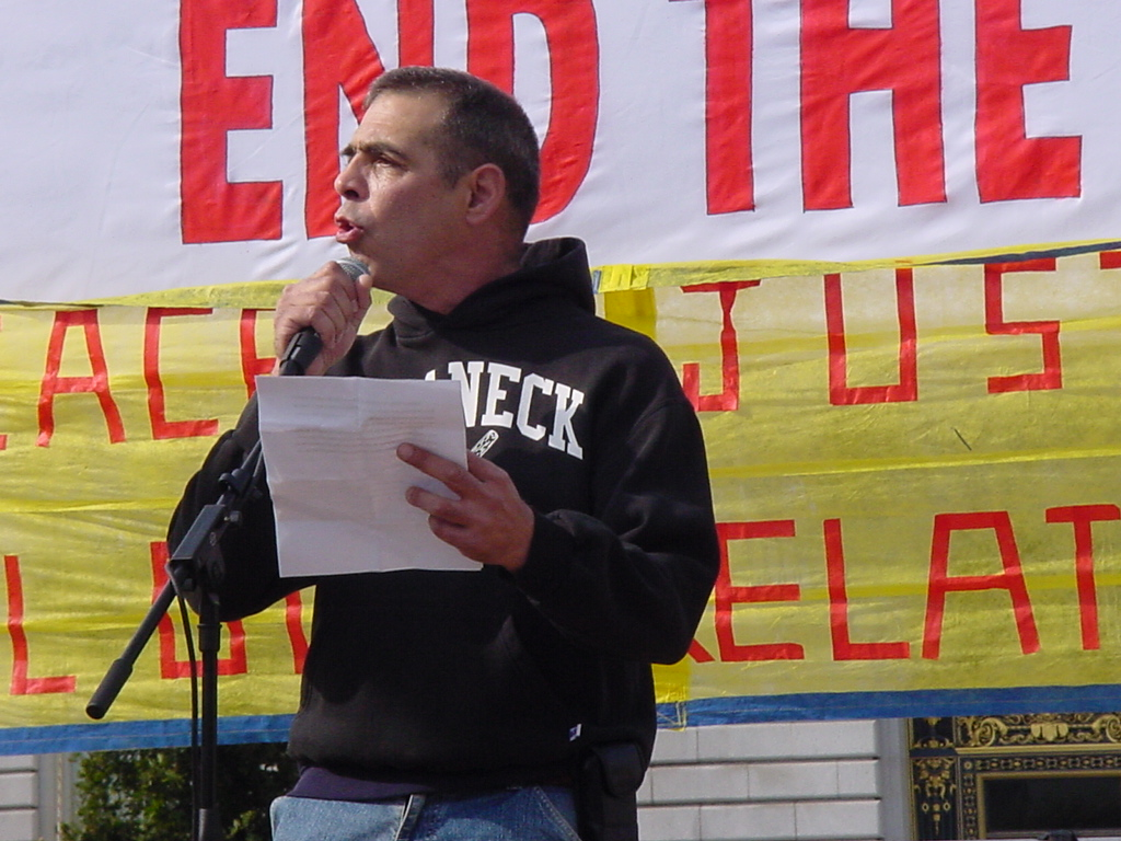 Photo of Mr. Raimondo was taken at the San Francisco Civic Center Park in front of City Hall on October 27, 2007. Raimondo was giving a speech to an anti-war crowd that had gathered locally on behalf of a nationwide effort.